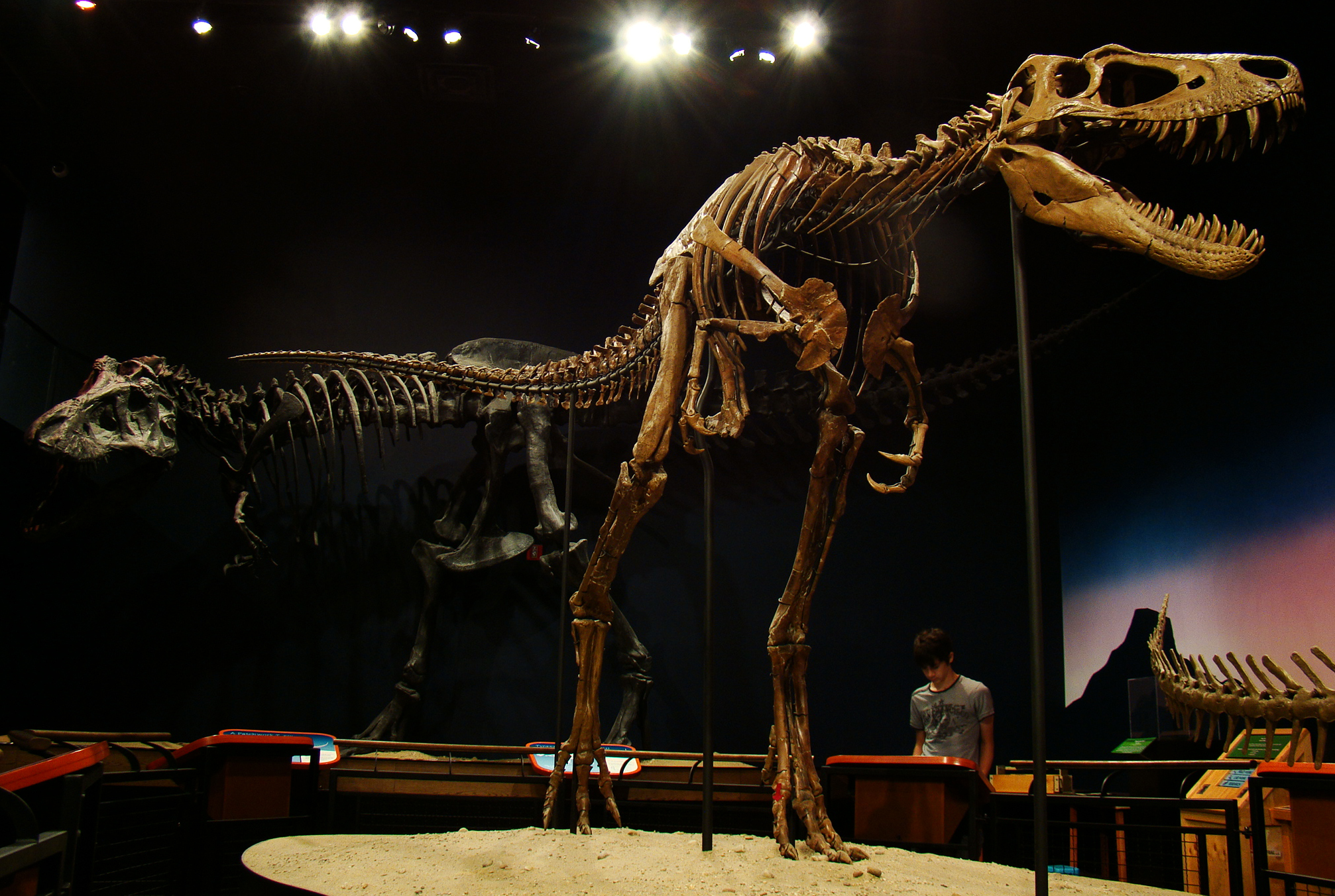 Juvenile T-rex fossil "Jane" with red arrow showing the anticipated infection area on the left foot. Photo was taken at Burpee Museum of Natural History at Rockford, IL. Link to the Stereoscopic Cross Eyed 3D version